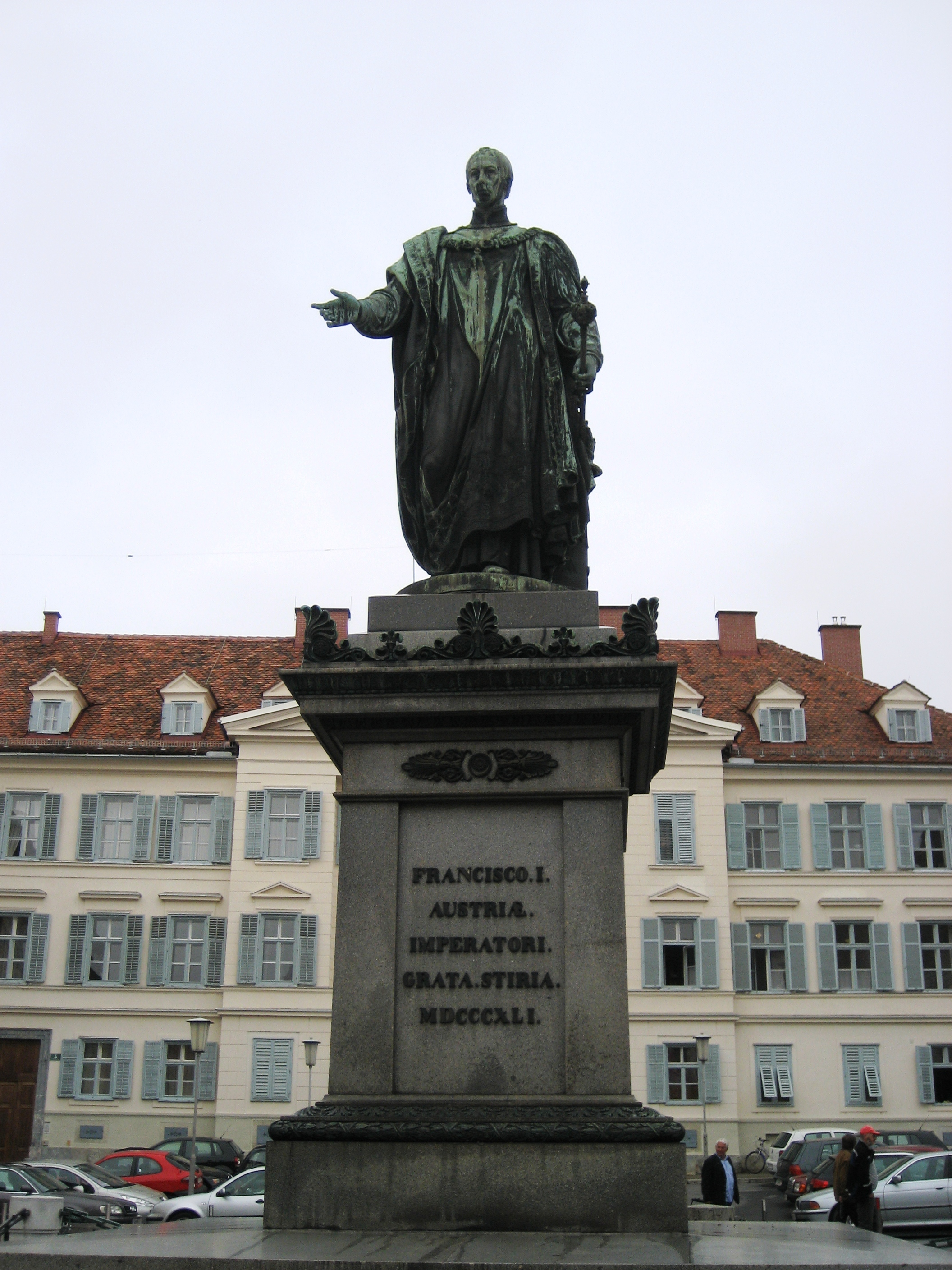 Monument of emperor Franz I. in Graz, Austria